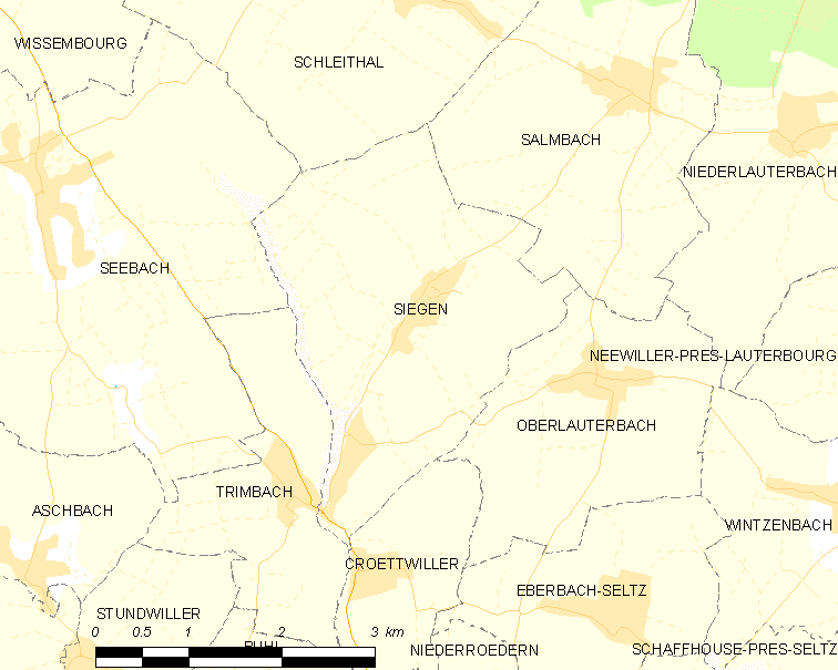 Map of French municipality